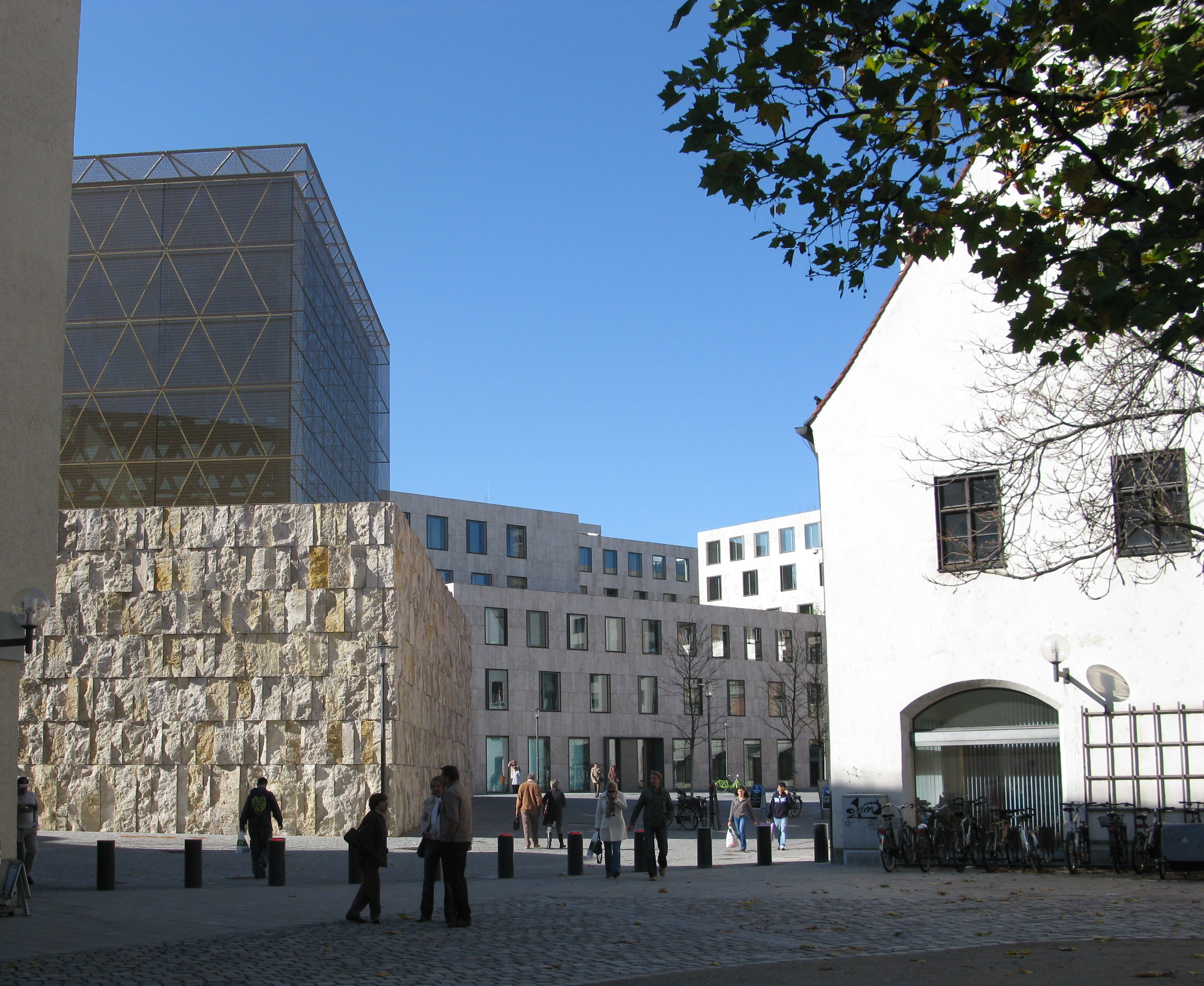 The Jewish Centre at the Jakobsplatz in Munich with the synagogue (left) and the Jewish Community Centre (right).